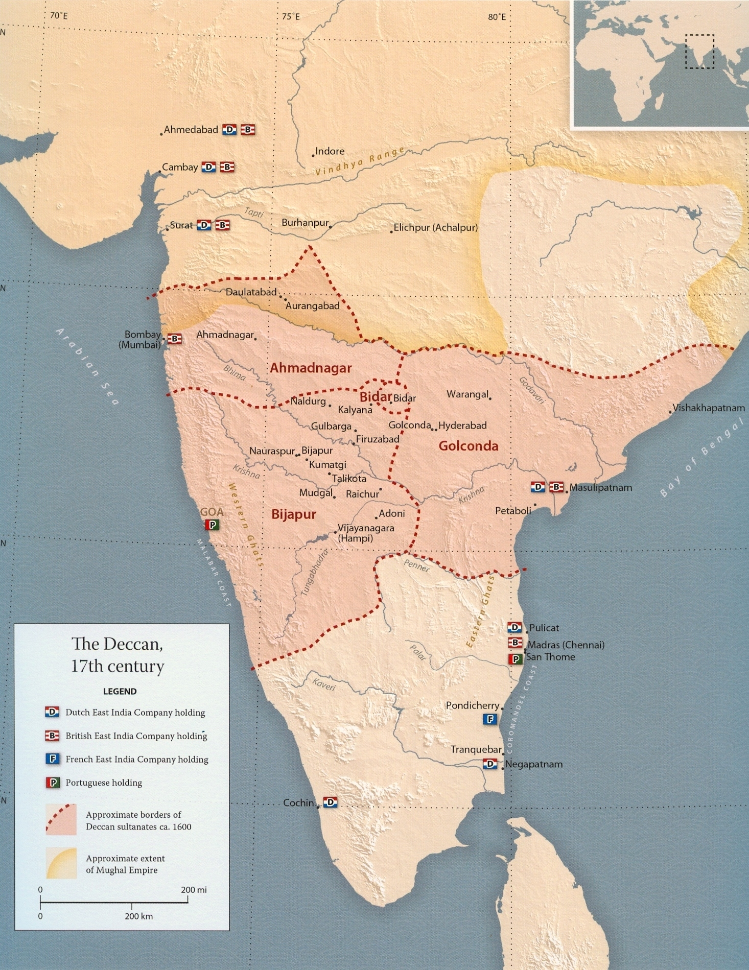 Map of the Deccan 17th century